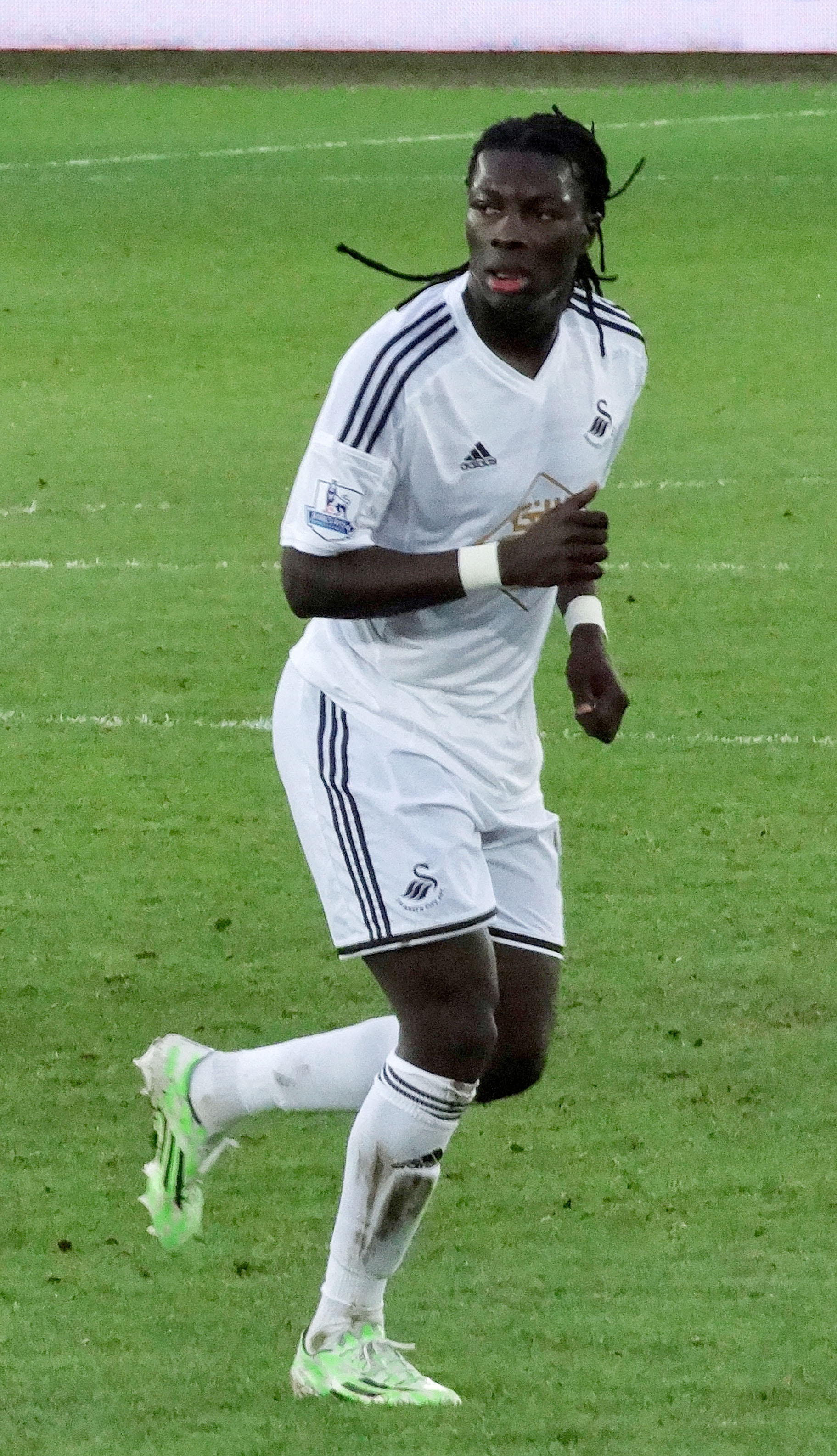 Bafetimbi Gomis playing for Swansea City in 2015.